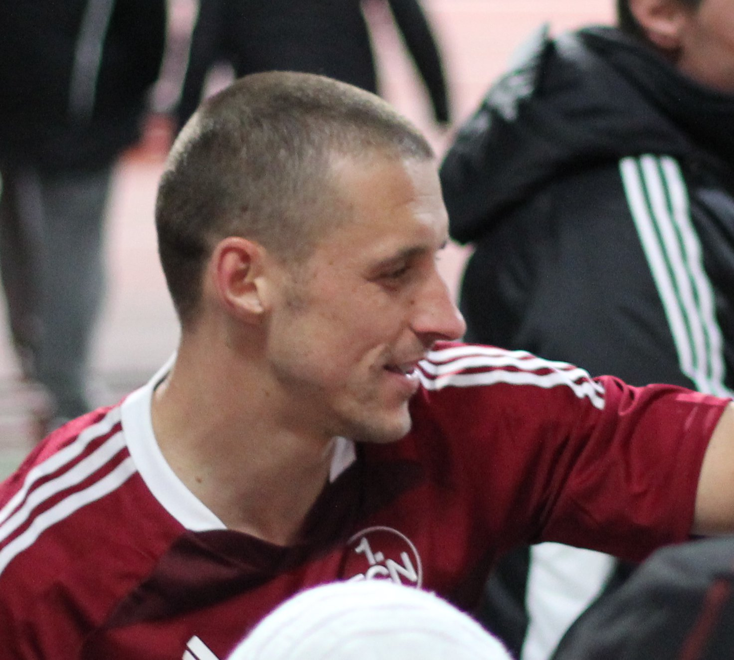 Timmy Simons, Belgian football player for German side 1. FC Nürnberg, 2011/12 season